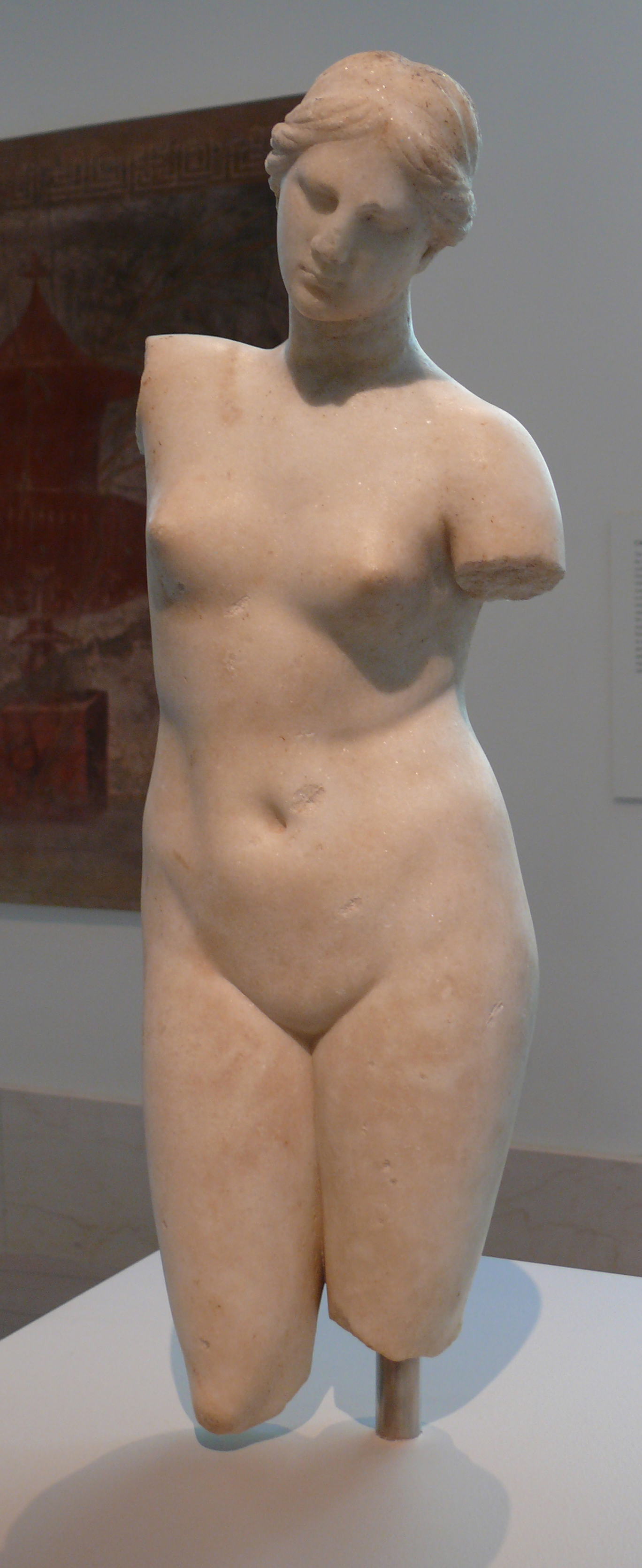 Marble statue of Aphrodite Anadyomene (hair binding) in the Metropolitan Museum of Art, New York, NY. Greek, hellenistic 2nd century BC provenance: gift of John Cross acquisition number: 50.10